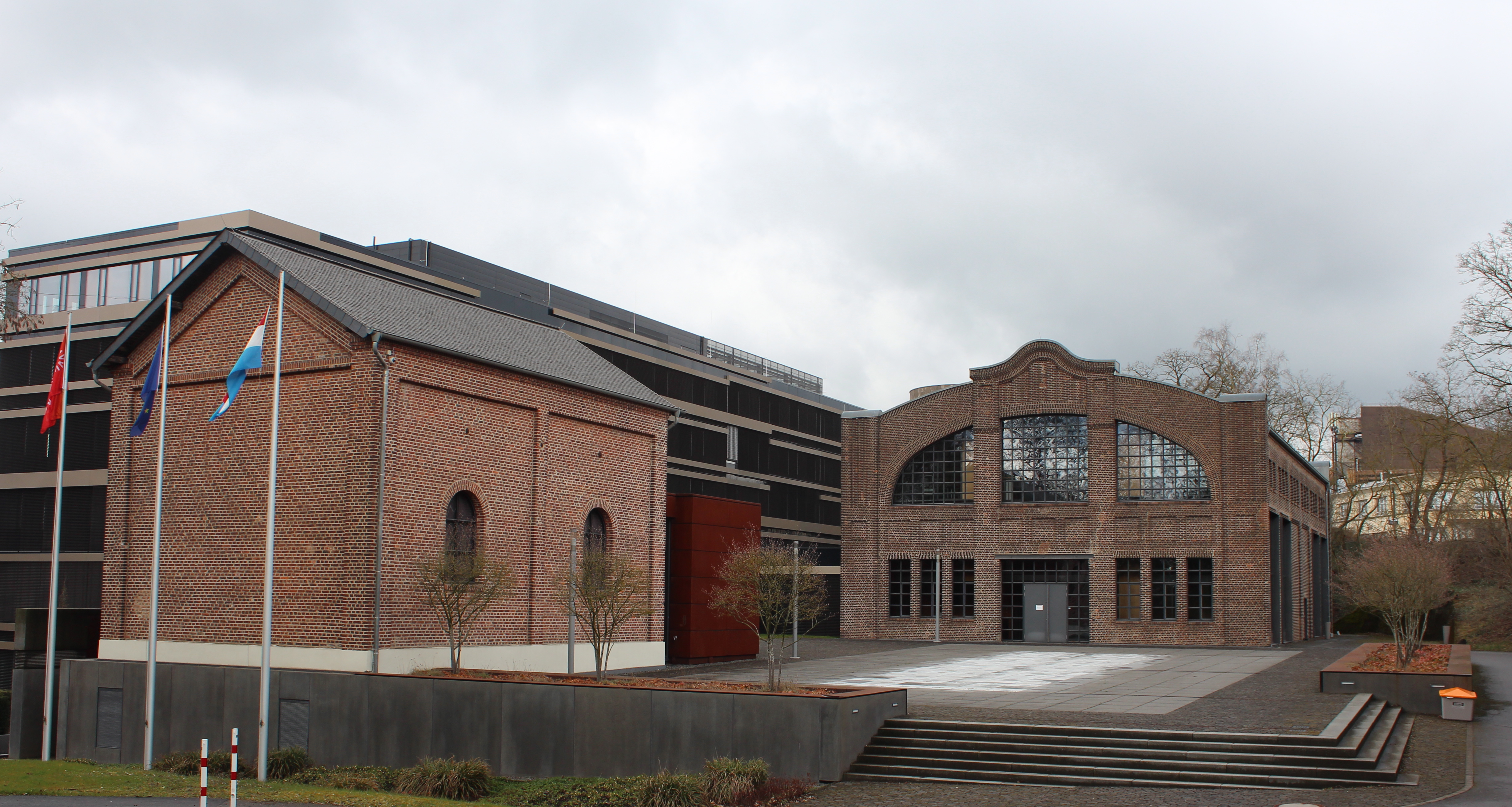 Headquarters of Luxembourgish power company Enovos in Esch-sur-Alzette: renovated pumping station and turbin hall of former Arbed Esch-Schifflange.